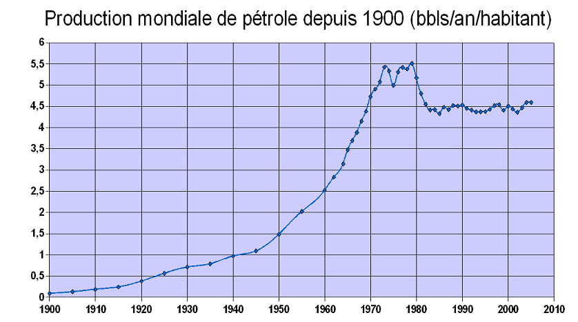 World oil production, divided by world population.